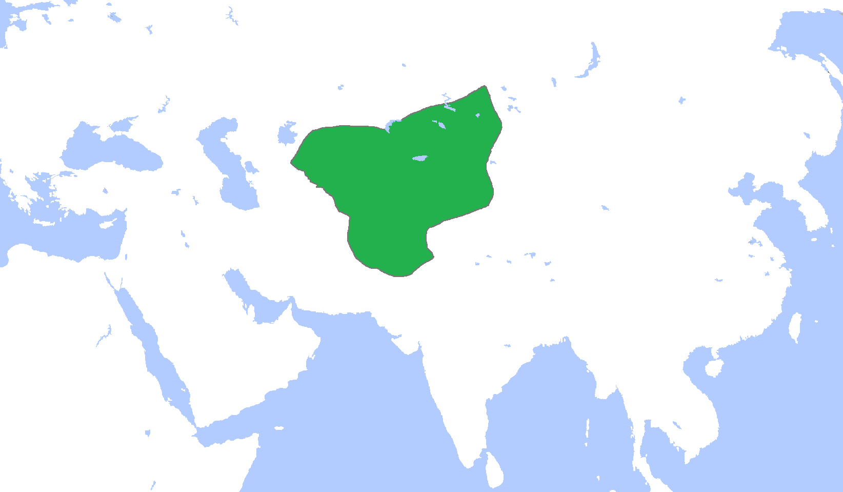 Locator map of the Chagatai Khanate, c. 1300. (Partially based on Atlas of World History (2007) - The World 1200-1300, map)